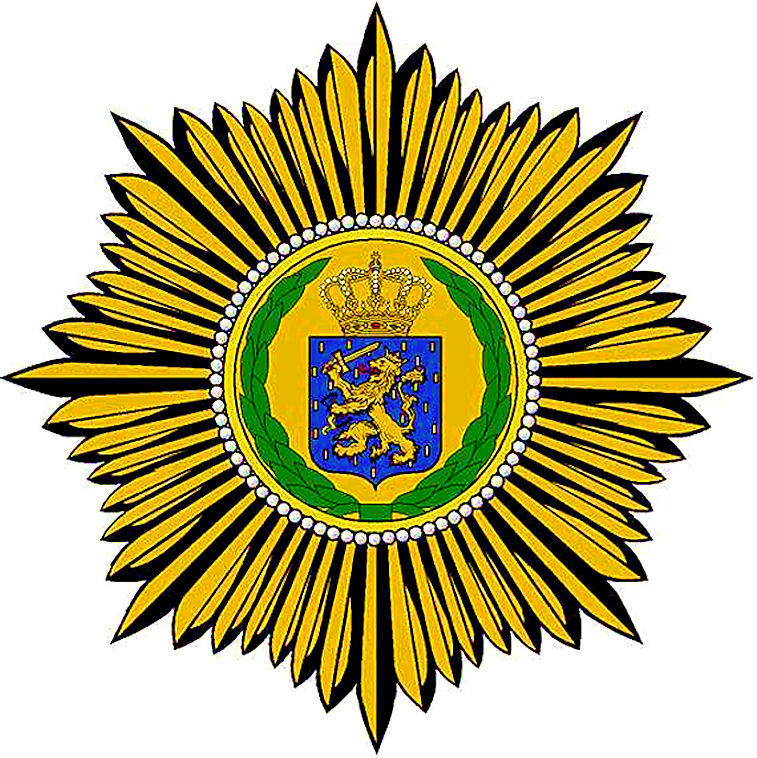 Royal Netherlands East Indies Army coat of arms Logo shield